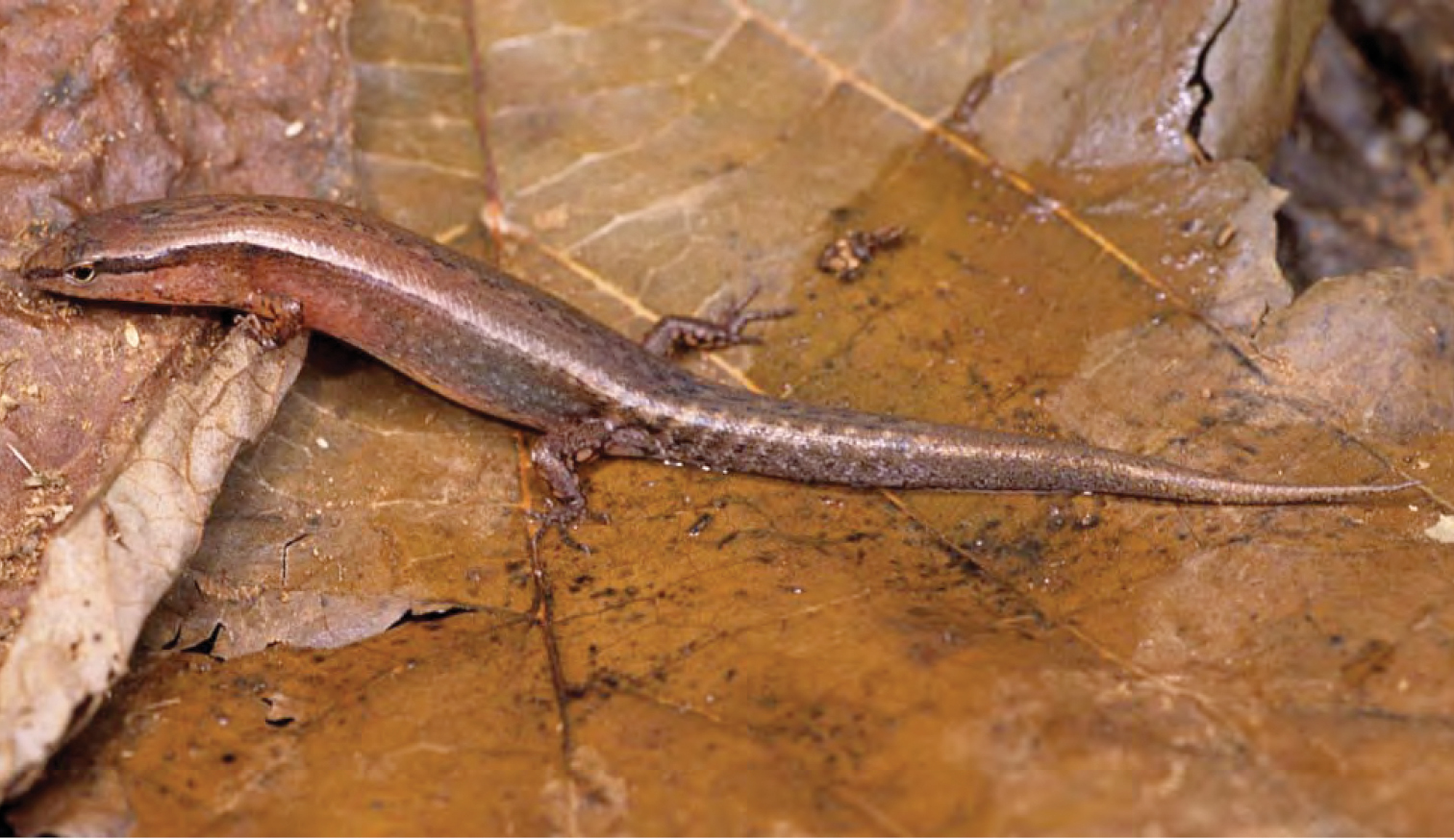 Parvoscincus decipiens (KU 326609) from Barangay Dibuluan, San Mariano. Photo: ACD.